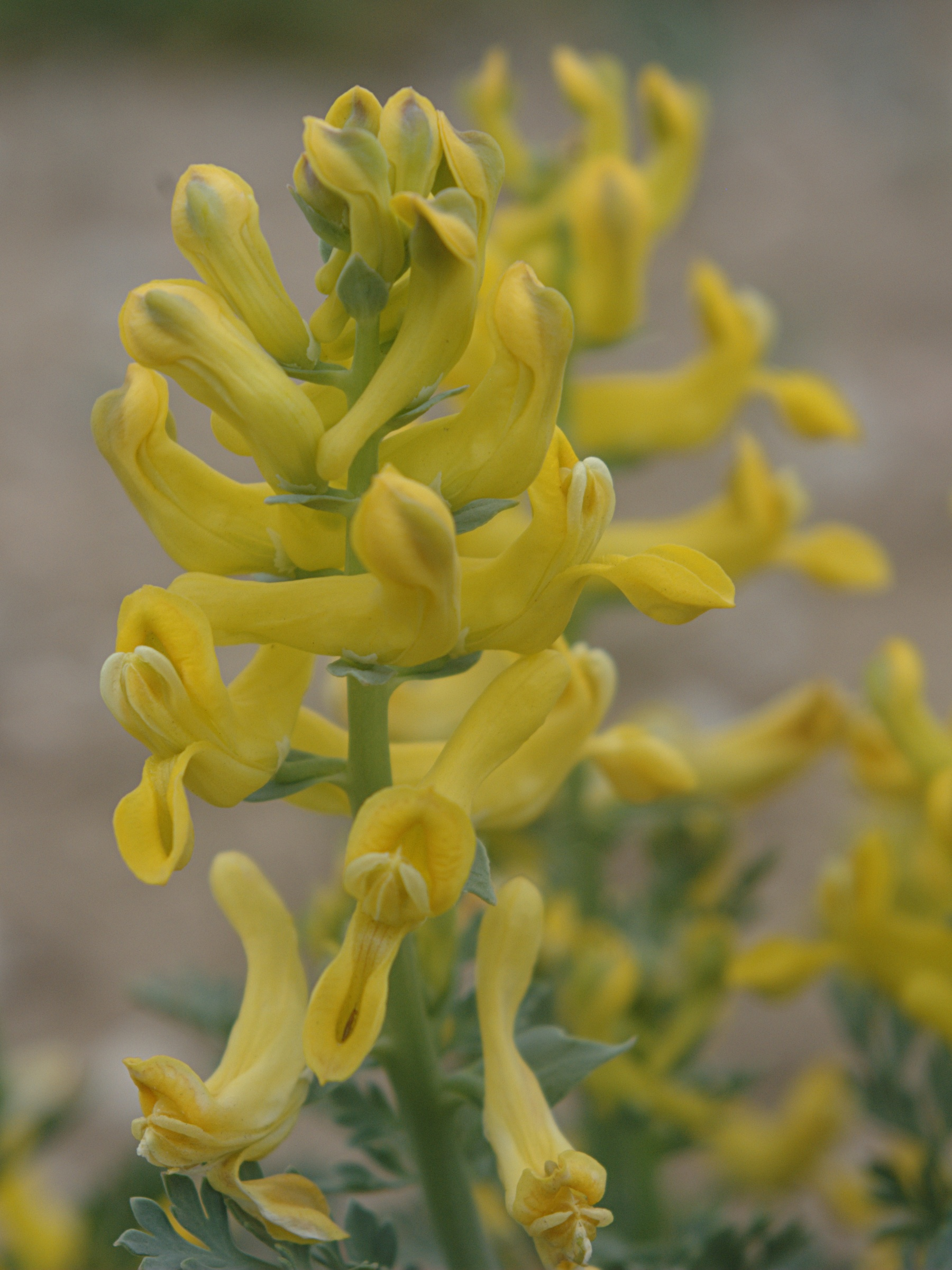 Almost in-focus close-up of flowers of golden smoke, Corydalis aurea, Ohkay Owingeh Pueblo, New Mexico.